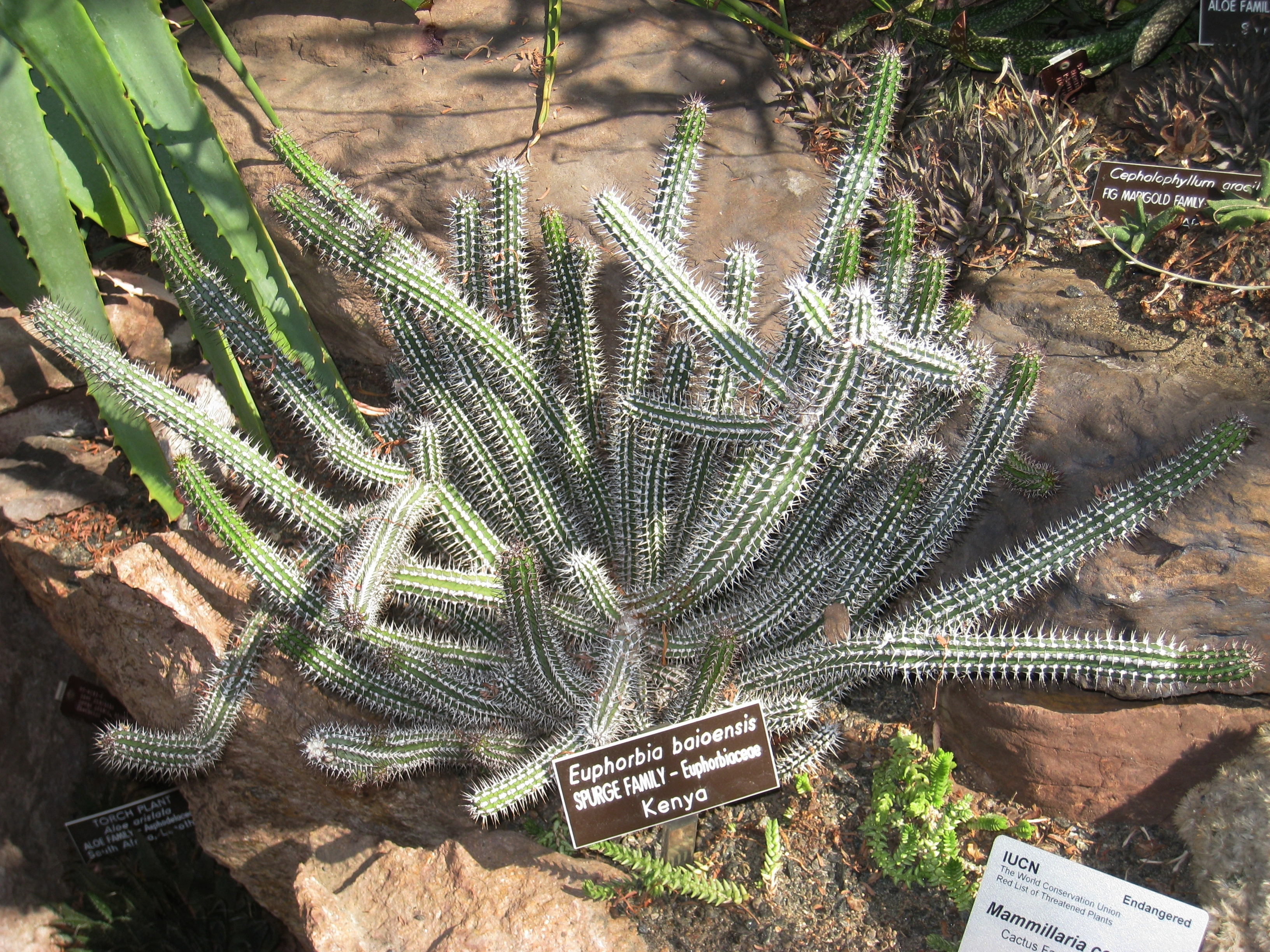 Euphorbia baioensis, in the United States Botanic Garden, Washington, DC, USA.